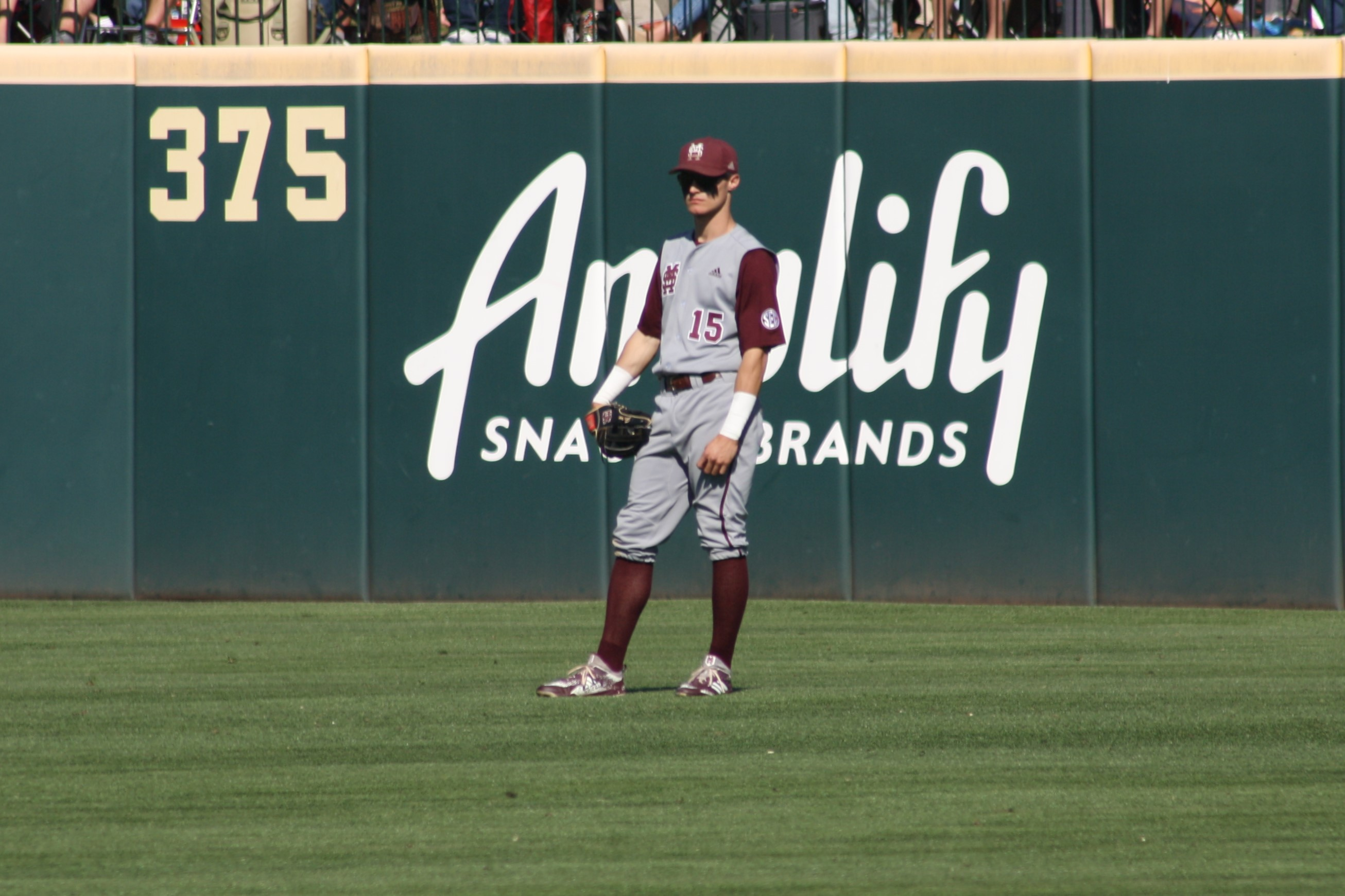 Jake Mangum plays centerfield for the Mississippi State Bulldogs against the Arkansas Razorbacks at Baum Stadium